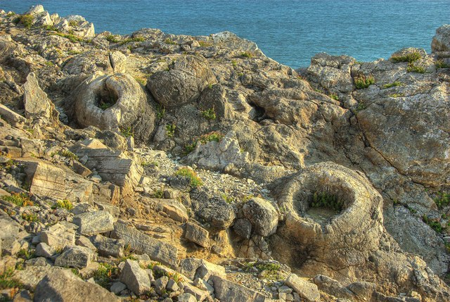 Fossil Forest, West Lulworth, Dorset The Fossil Forest provides a fascinating insight into conditions prevailing in the Upper Jurassic period, 135 million years ago. They are on a ledge some 25 metres above the sea. On this ledge are some ring-shaped structures up to 2m across. These are moulds of gymnosperms (early coniferous trees) which died after being encased in sediment. Most of the trees were upright leaving round holes, but some had fallen leaving elongate coffin-shaped moulds.